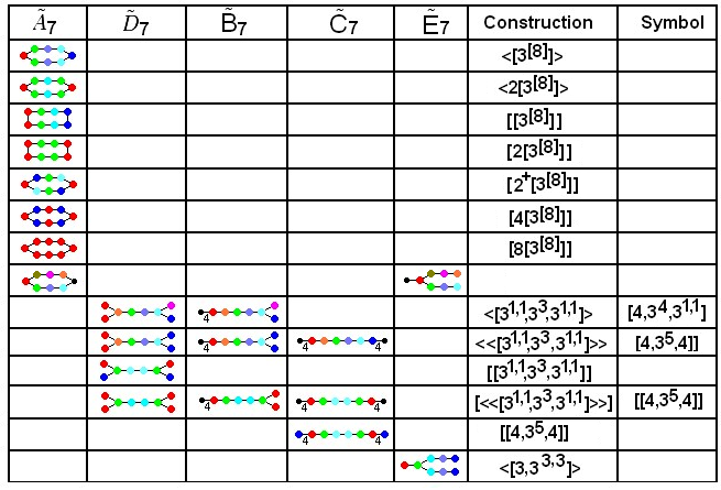 Coxeter-Dynkin diagrams for affine Coxeter group symmetries